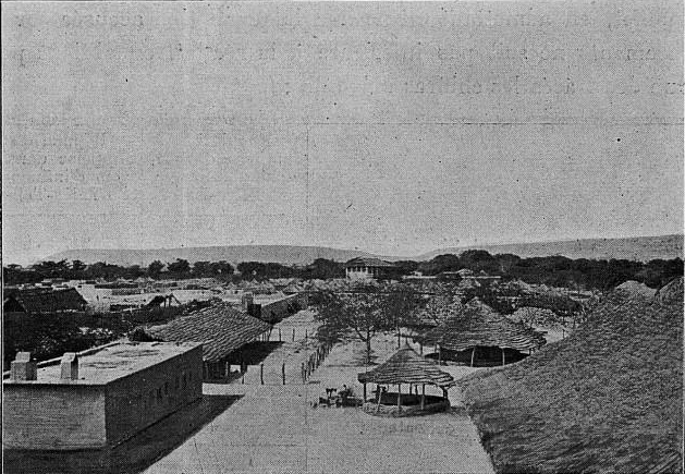 View of Bamako